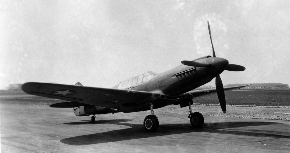 PictionID:40972671 - Title:Warhawk Curtiss XP-40Q 42-9987 - Catalog:15_002758 - Filename:15_002758.tif - Image from the Charles Daniels Photo Collection album "US Army Aircraft."----PLEASE TAG this image with any information you know about it, so that we can permanently store this data with the original image file in our Digital Asset Management System.----SOURCE INSTITUTION: San Diego Air and Space Museum Archive